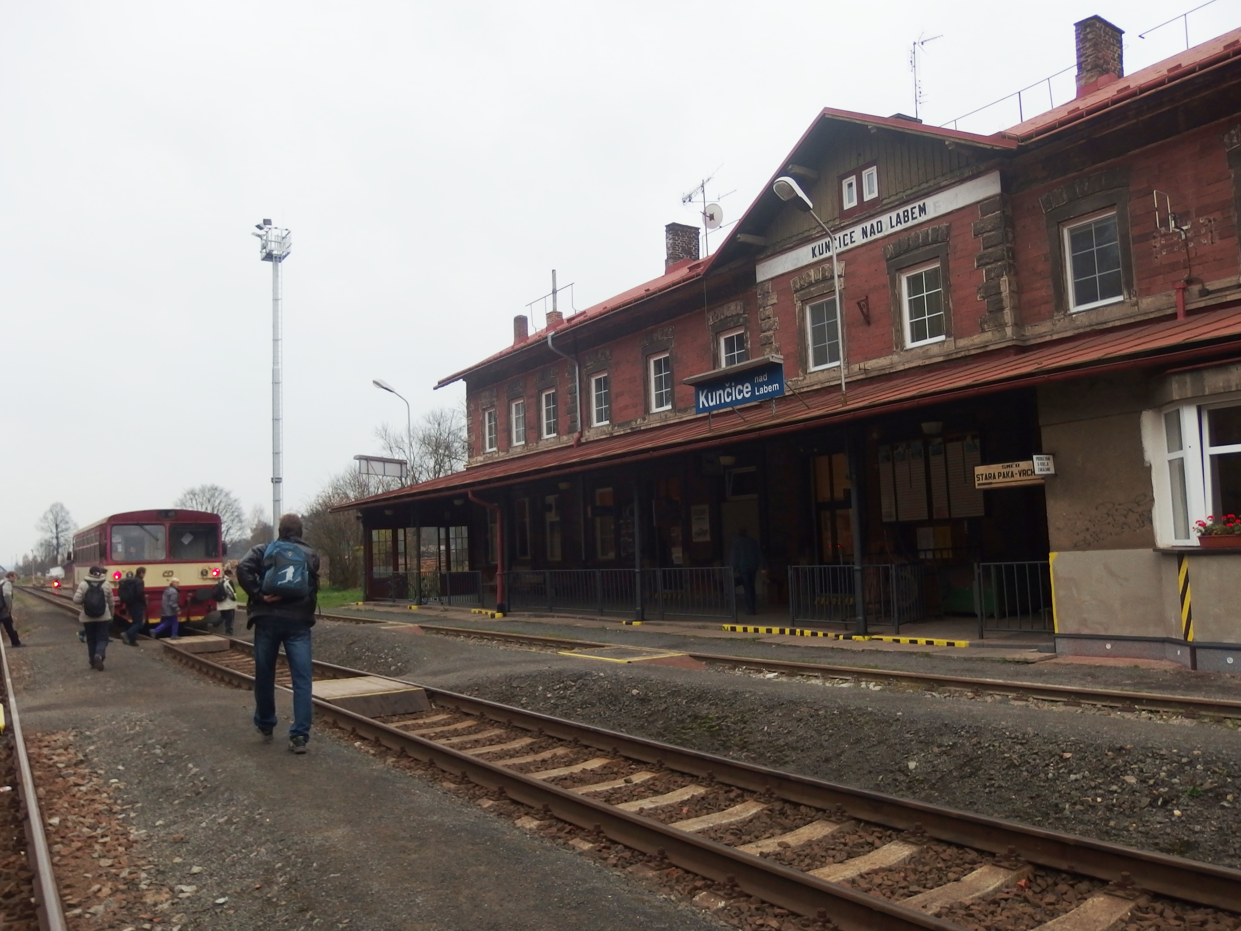 Kunčice nad Labem, Trutnov District, Czech Republic. Train station.